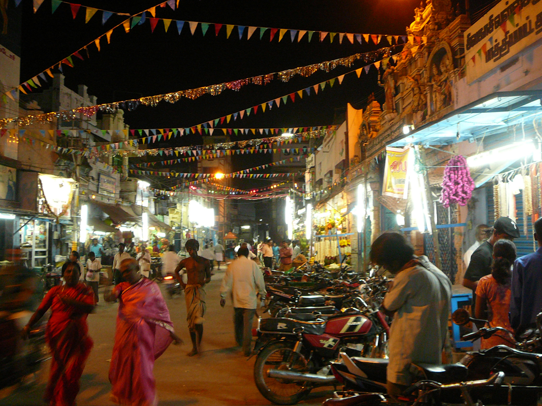 The busy streets in sivakasi on a normal day.